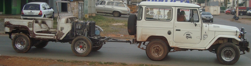 A Toyota Bandeirante (Brazilian Land Cruiser) towing another Bandeirante